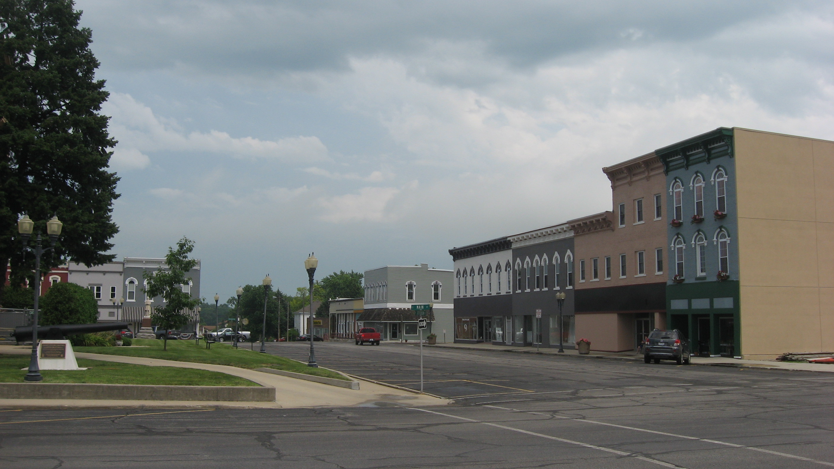 Buildings on Jefferson Street on the southern side of Courthouse Square in Sullivan, Illinois, United States.